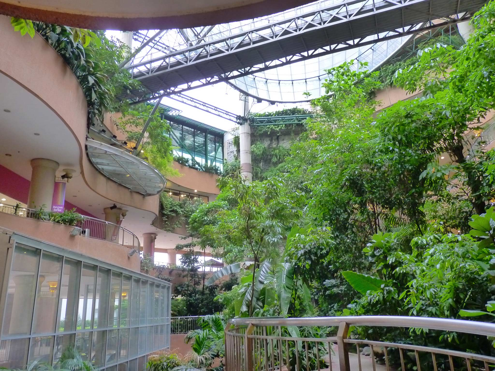 Rainforest precinct of 1 Utama shopping mall.